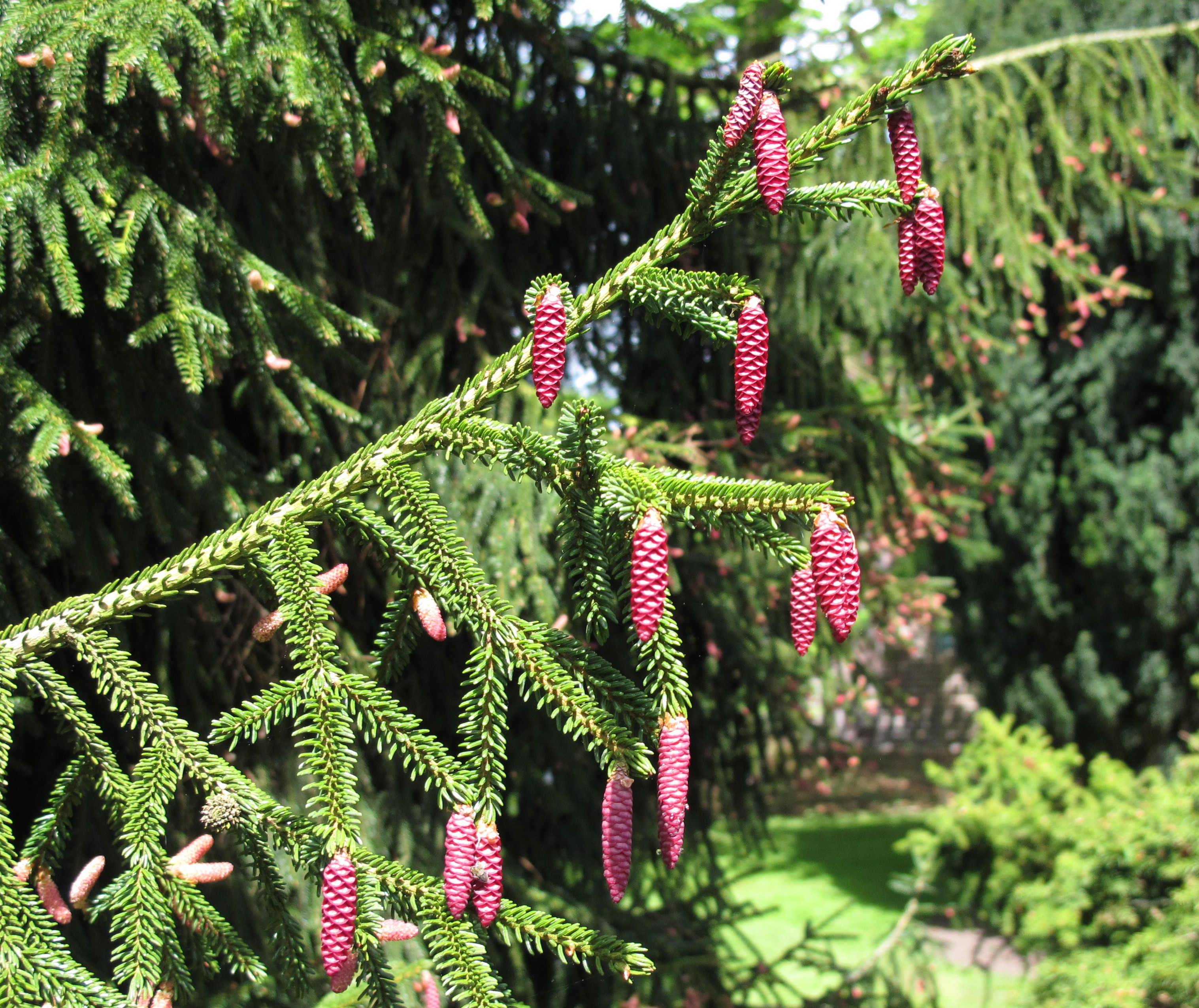 Young cones of Picea orientalis cv. 'Aureospicata'. Pinetum Blijdenstein, Hilversum (NL)